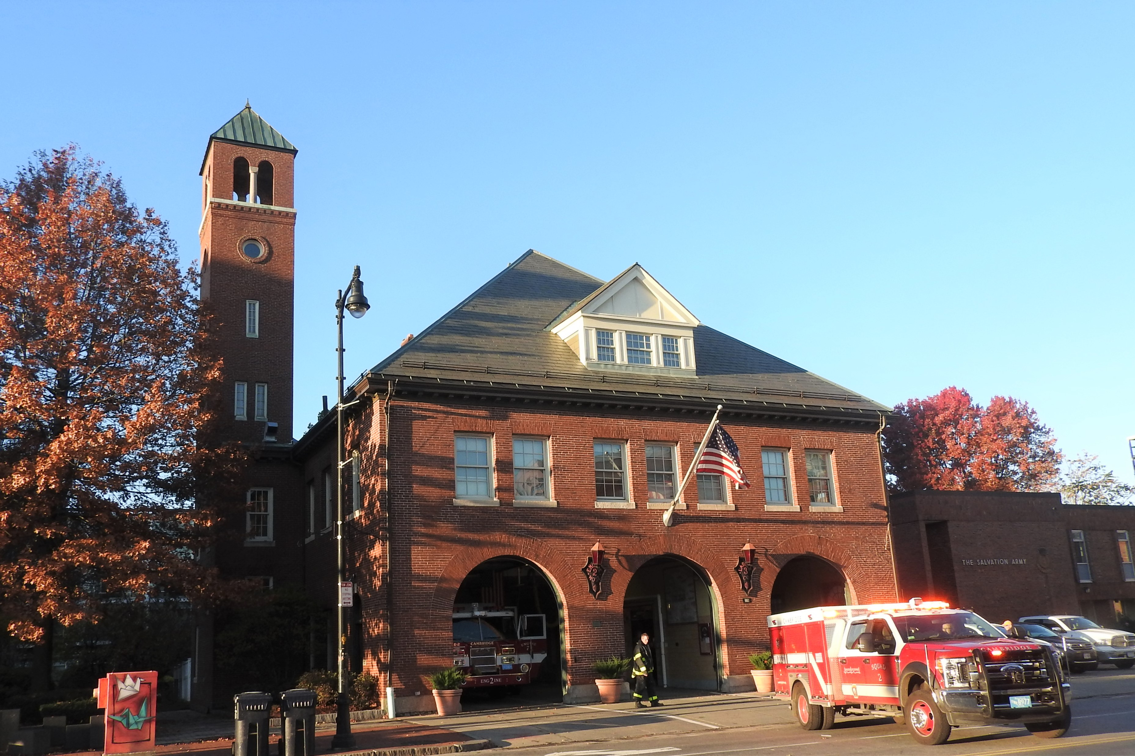 Looking west at firehouse on a sunny morning.